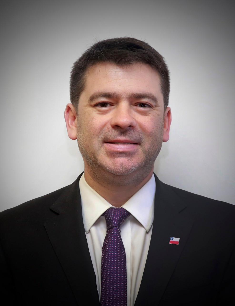 Official portrait of Sebastián Valenzuela Agüero as Undersecretary of Justice of Chile